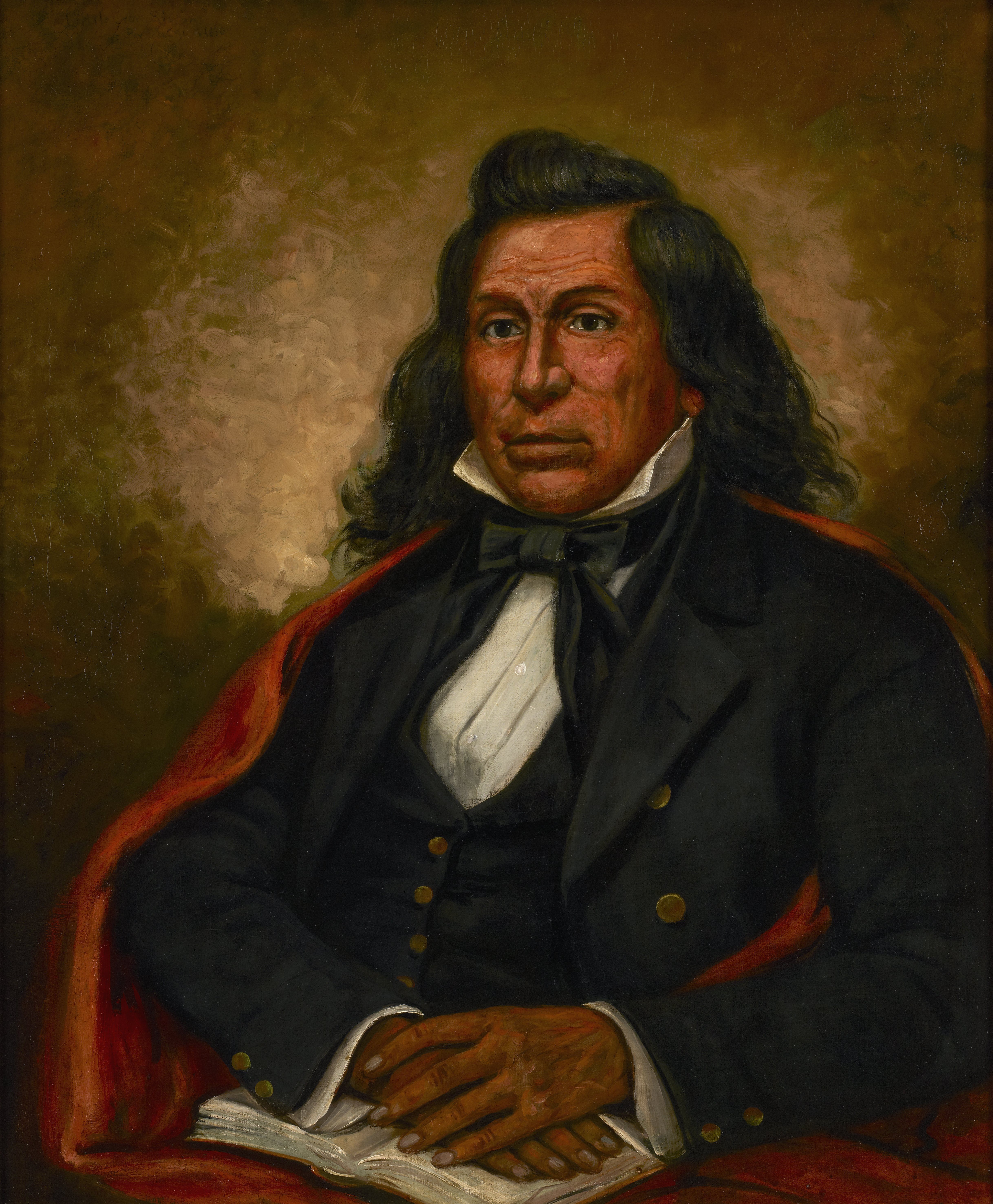 Portrait